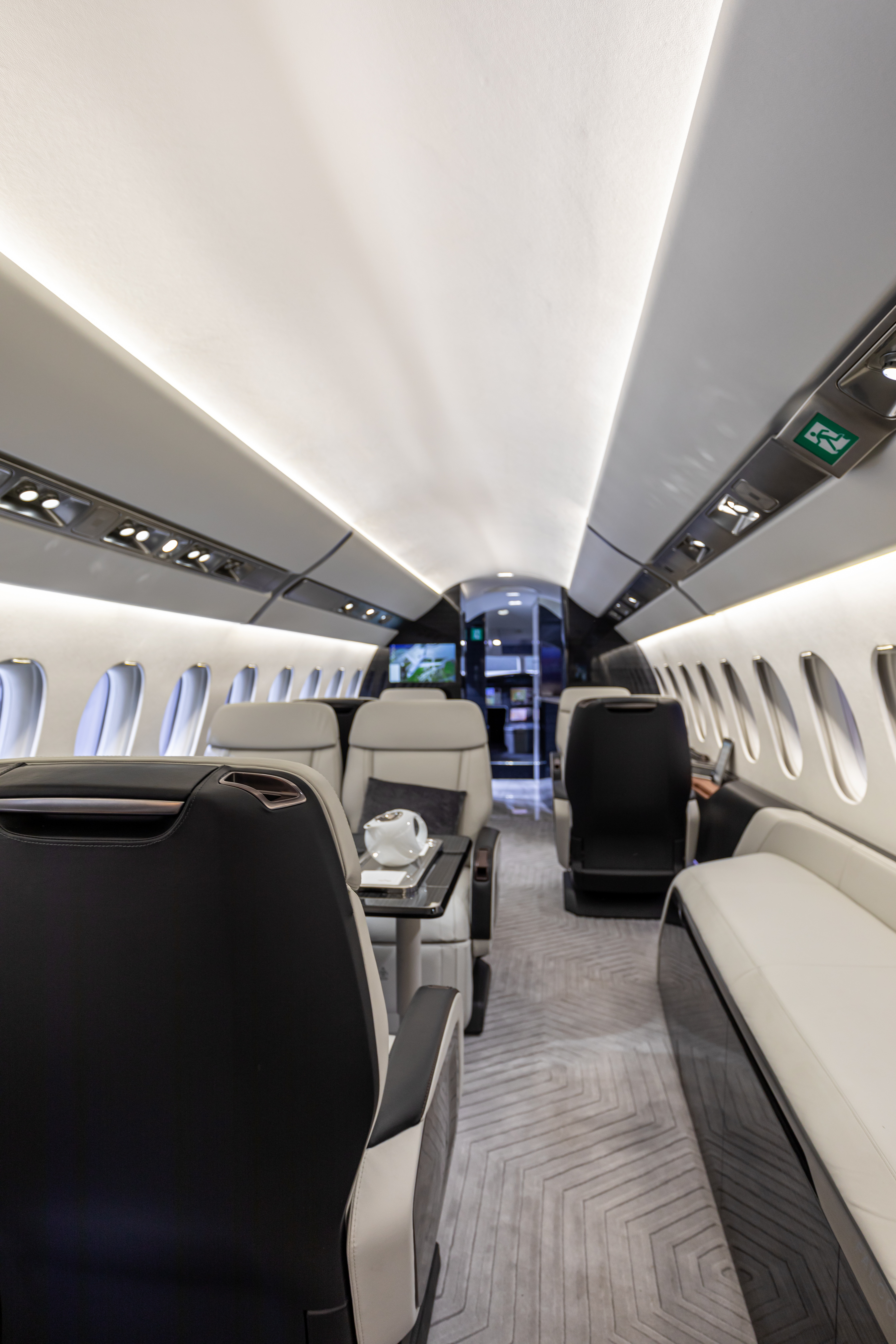 Mock-up interior of a Dassault Falcon 6X at EBACE 2019, Palexpo, Switzerland